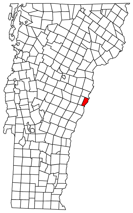 Map of Vermont towns with Fairlee highlighted